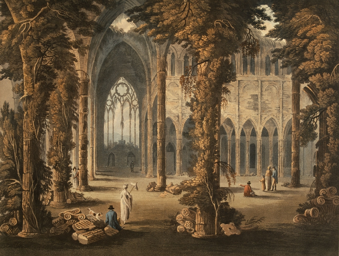 An interior view of the ruins of Tintern Abbey, looking toward the south window. Ivy mantles the pillars, a feature admired by many visitors, and fallen masonry is stacked on the ground. The tinted print was engraved after a sketch made by Francis Calvert, newly arrived from Ireland in 1815. It is part of a set of four published that year.